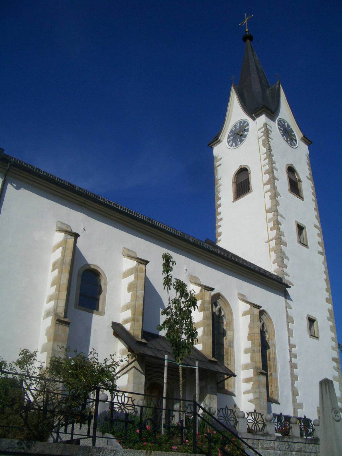 Saint Nikolaus Church in Unterweißenbach, Upper Austria